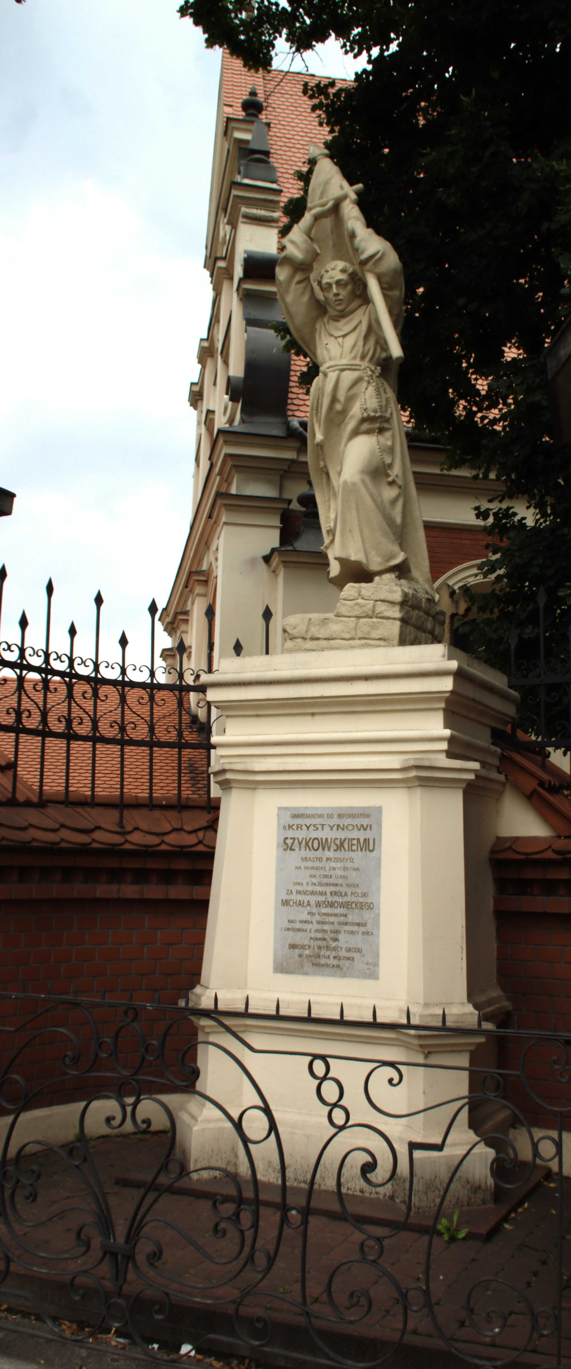 A statue dedicated to Krystyn Szykowski in Przemyśl, part of the area of franciscan monastery. Podkarpackie Voivodeship, Poland